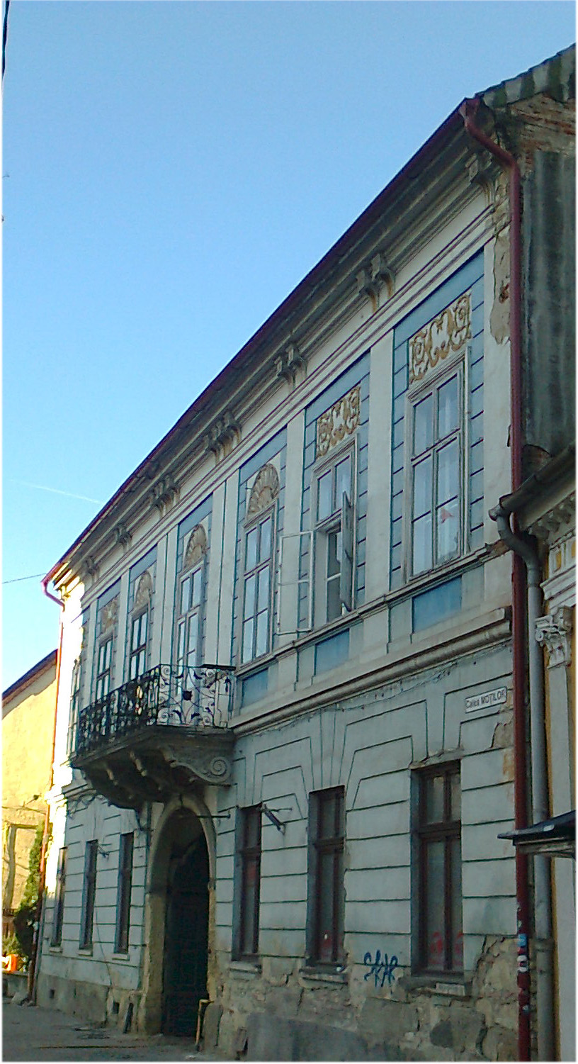 The Bornemissza-Szilvássy house in Kolozsvár (now Cluj-Napoca, Calea Moților nr. 4)